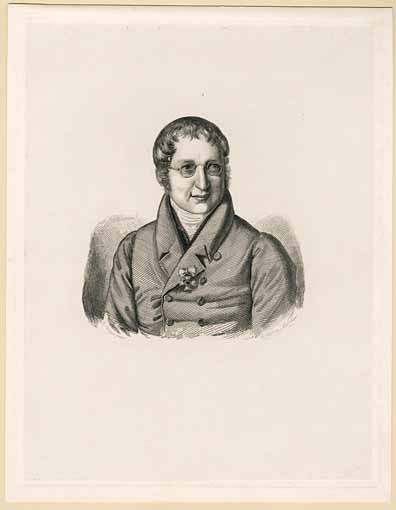 The german jurist and publisher Julius Eduard Hitzig (1780-1849)